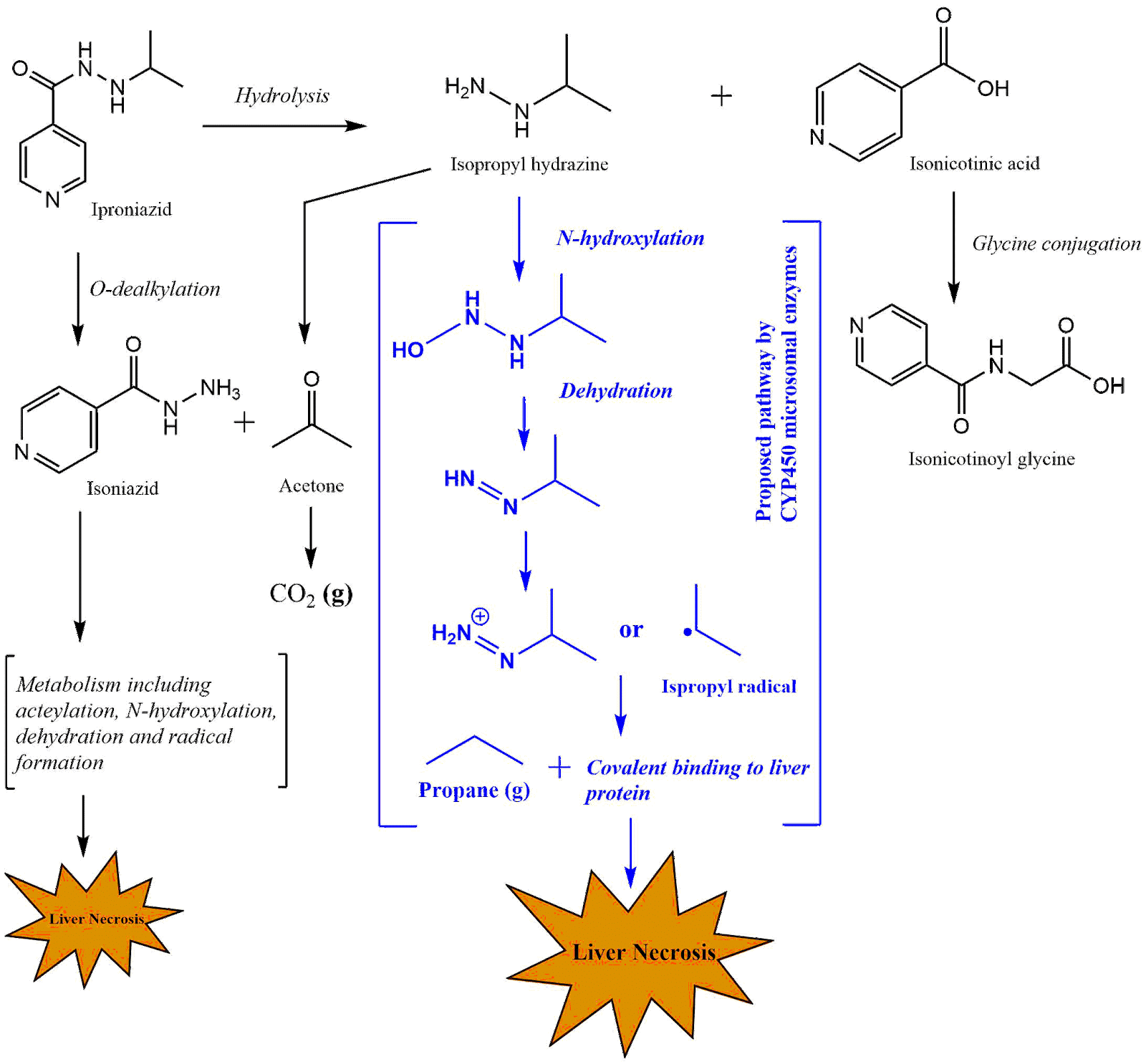 The metabolism of iproniazid. Not the heptatoxicity caused by the isopropyl radical that covalently binds to liver protein.